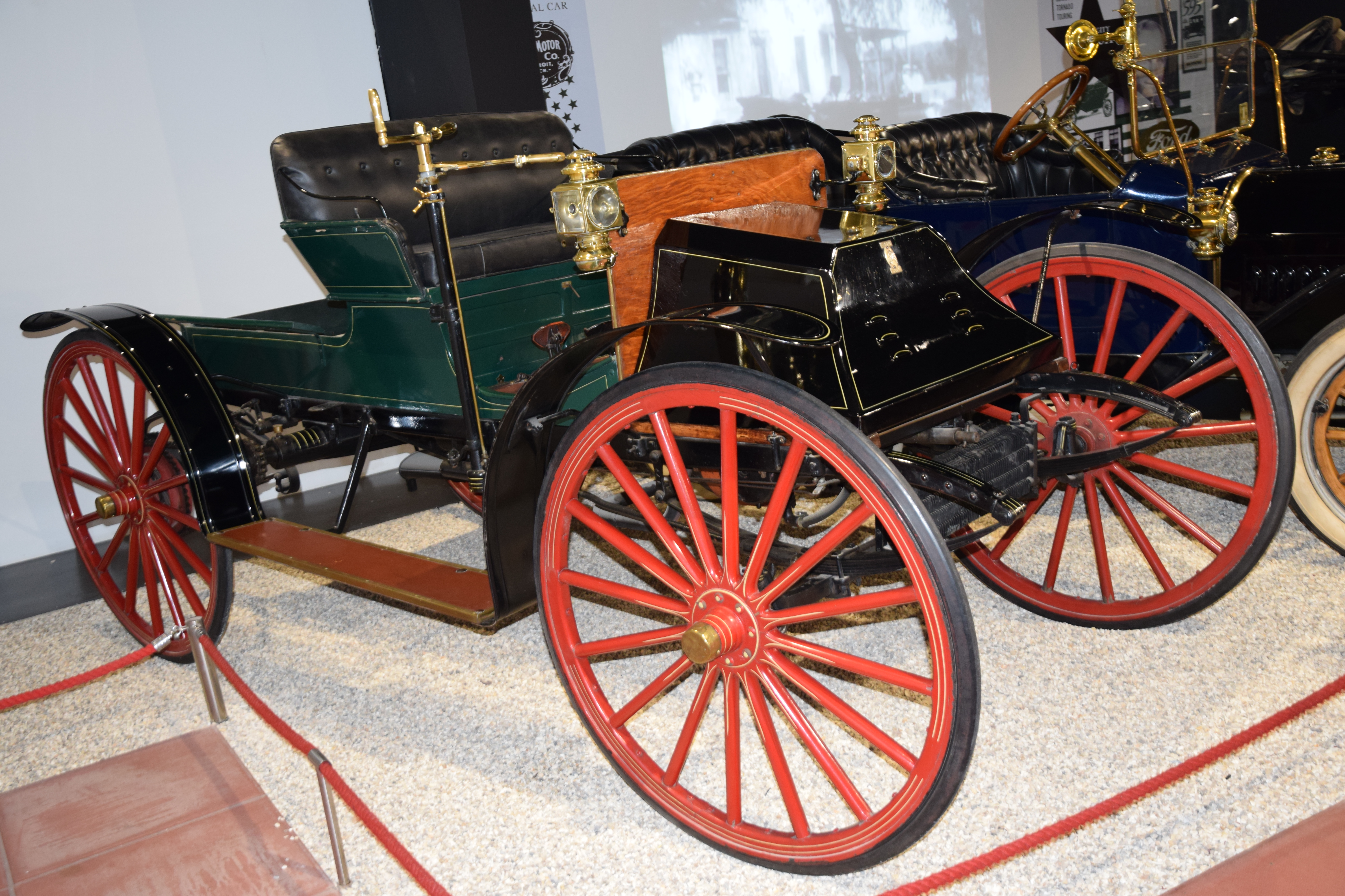 1909 Reliable Dayton at the Haynes International Motor Museum, Sparkford, 8 May 2017.